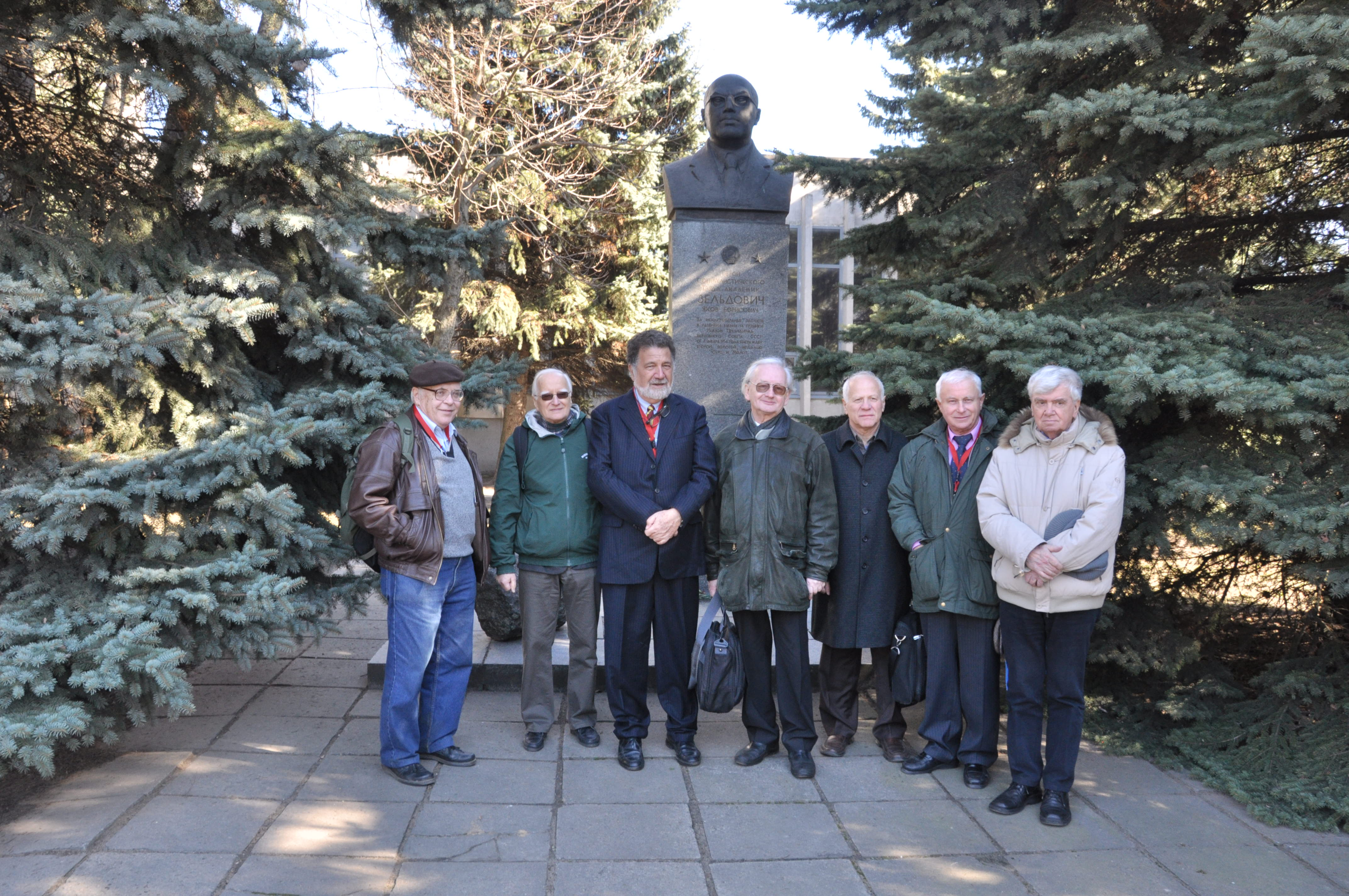 Some of the core participants from Zeldovich-100 conference at the Zeldovich monument in Minsk, Belarus. From left to right: Andrei Doroshkevich, Marek Demianski, Remo Ruffini, Alexei Starobinsky, Lev Titarchuk, Gennady Bisnovatyi-Kogan, Vladimir Belinski.